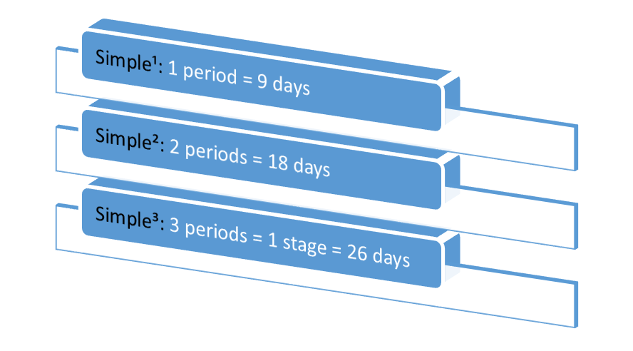 Simple ranges at ICHIMOKU